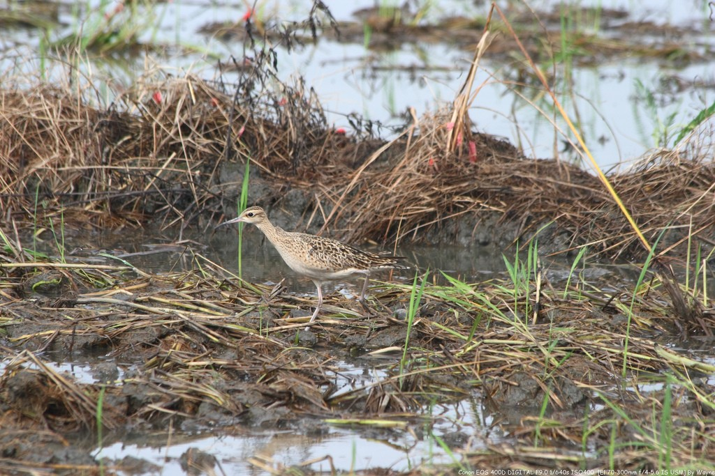 Little Curlew Numenius minutus, Toucheng, Taiwan